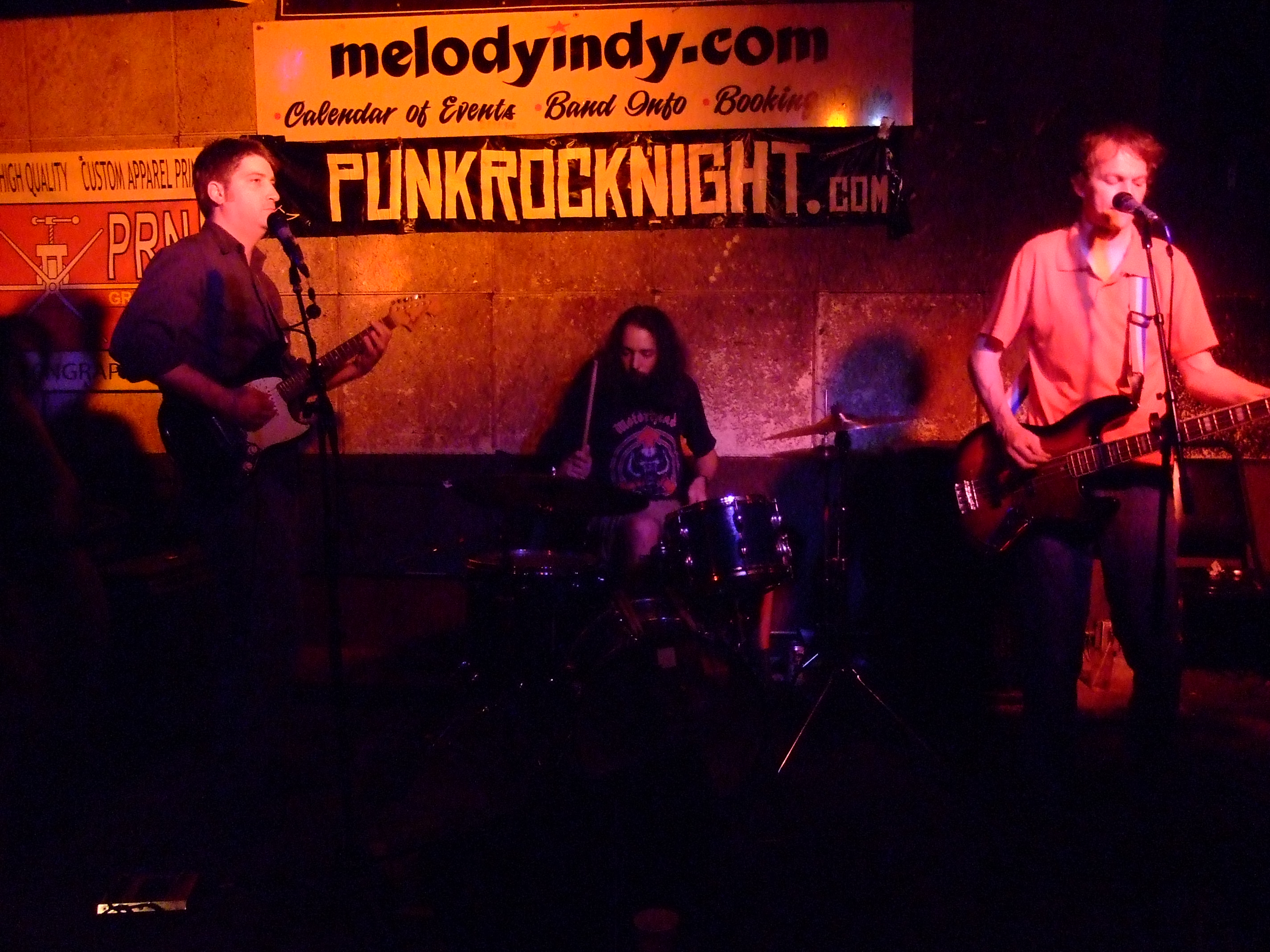 Marmoset performing at the Melody Inn in Indianapolis, Indiana to promote the vinyl repressing of The Record In Red album.